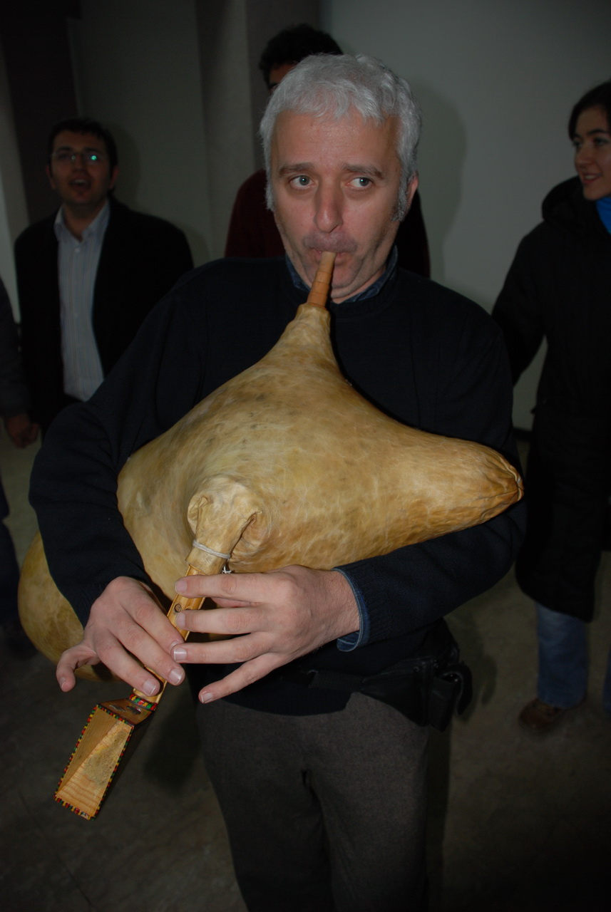 Laz musician Birol Topaloglu play Turkish bagipipe 'tulum'